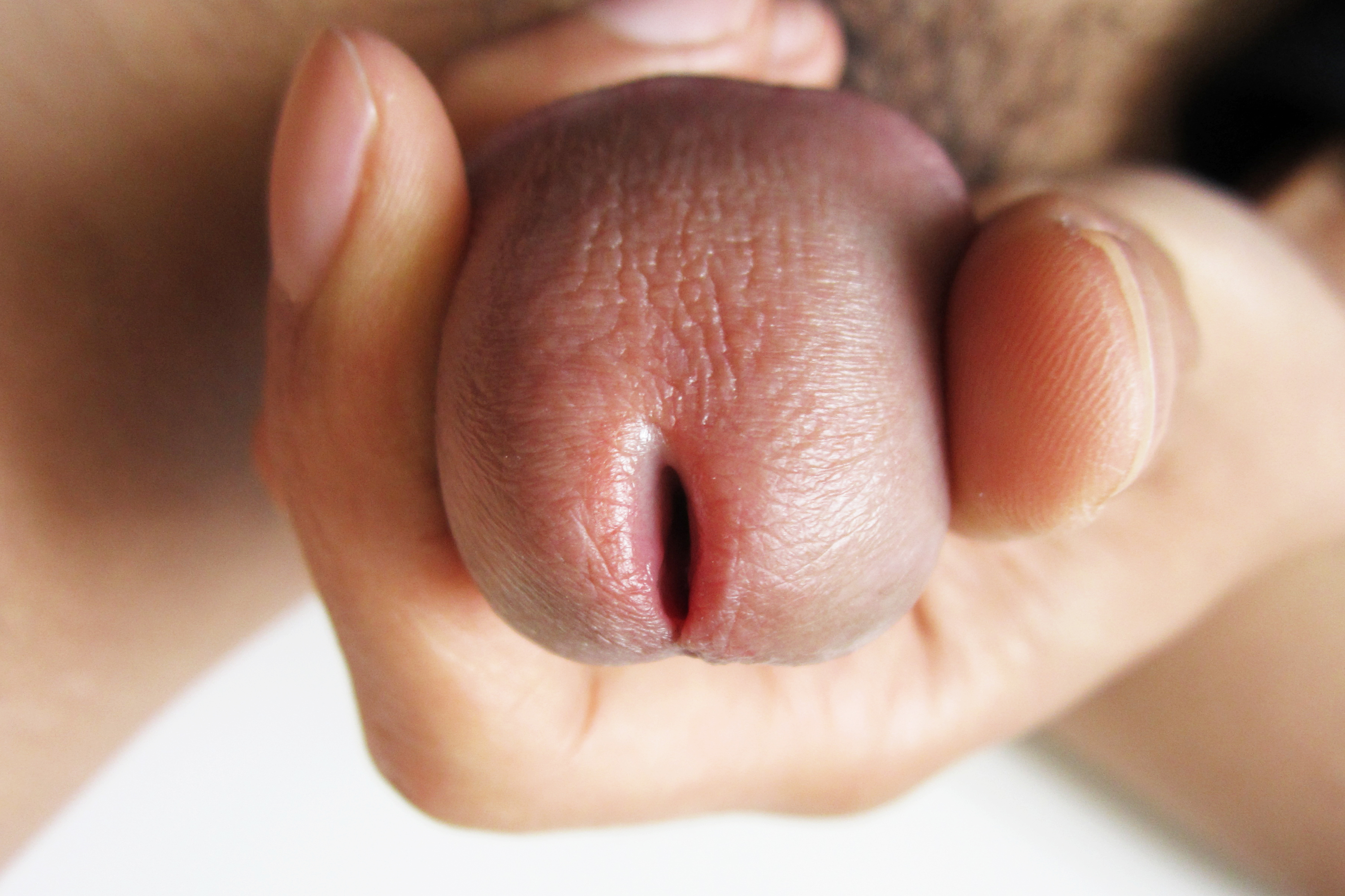 External urethral orifice of a male human